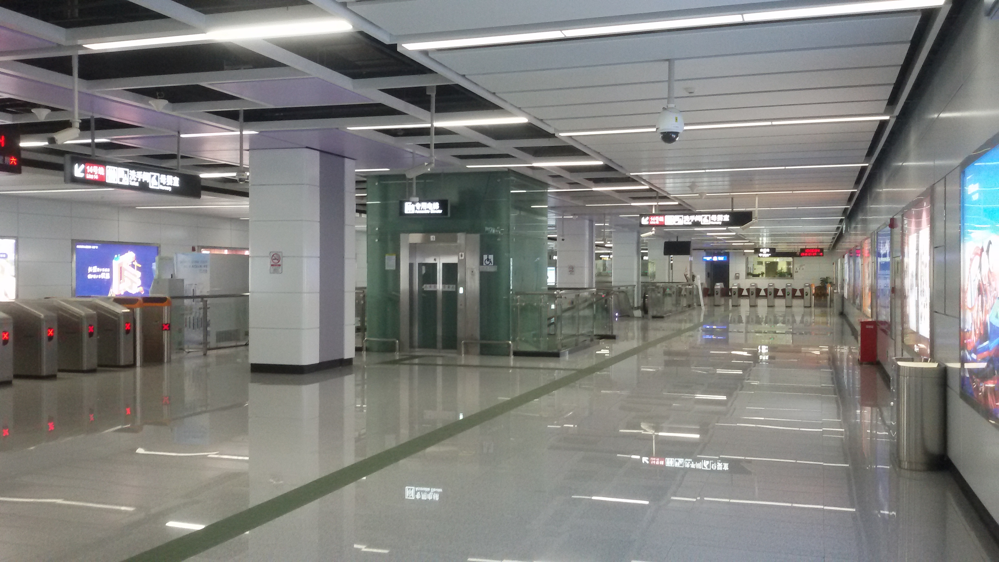 Station Concourse for Hongwei Station in Guangzhou Metro.